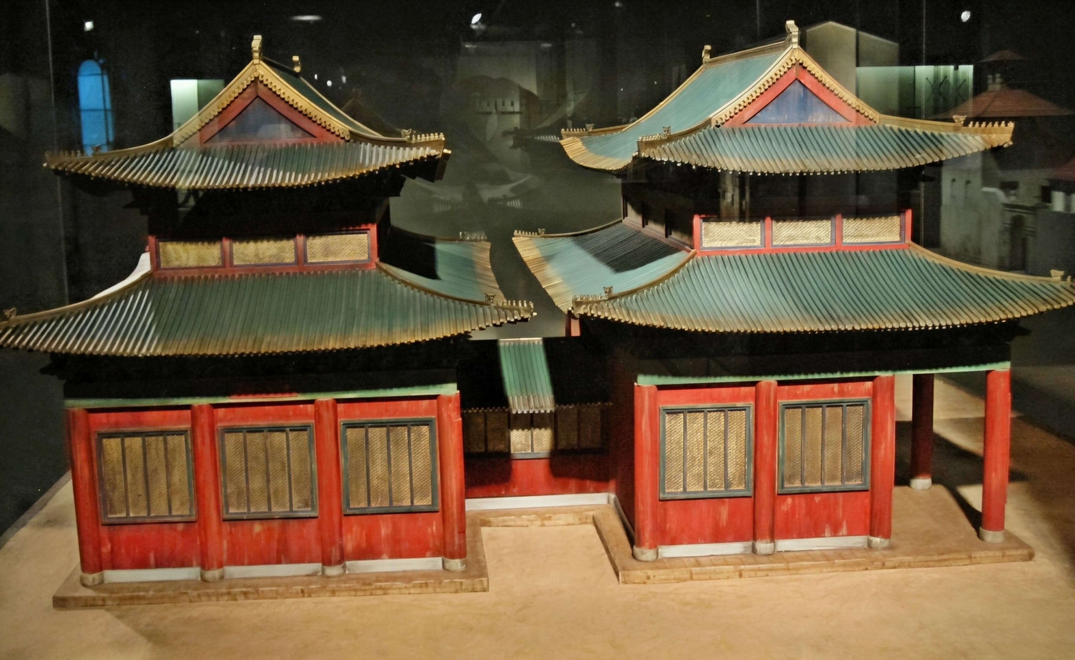 This is a photo of an exhibit at the Diaspora Museum, Tel Aviv - Beit Hatefutsot. This is a model of Kaifeng Synagogue